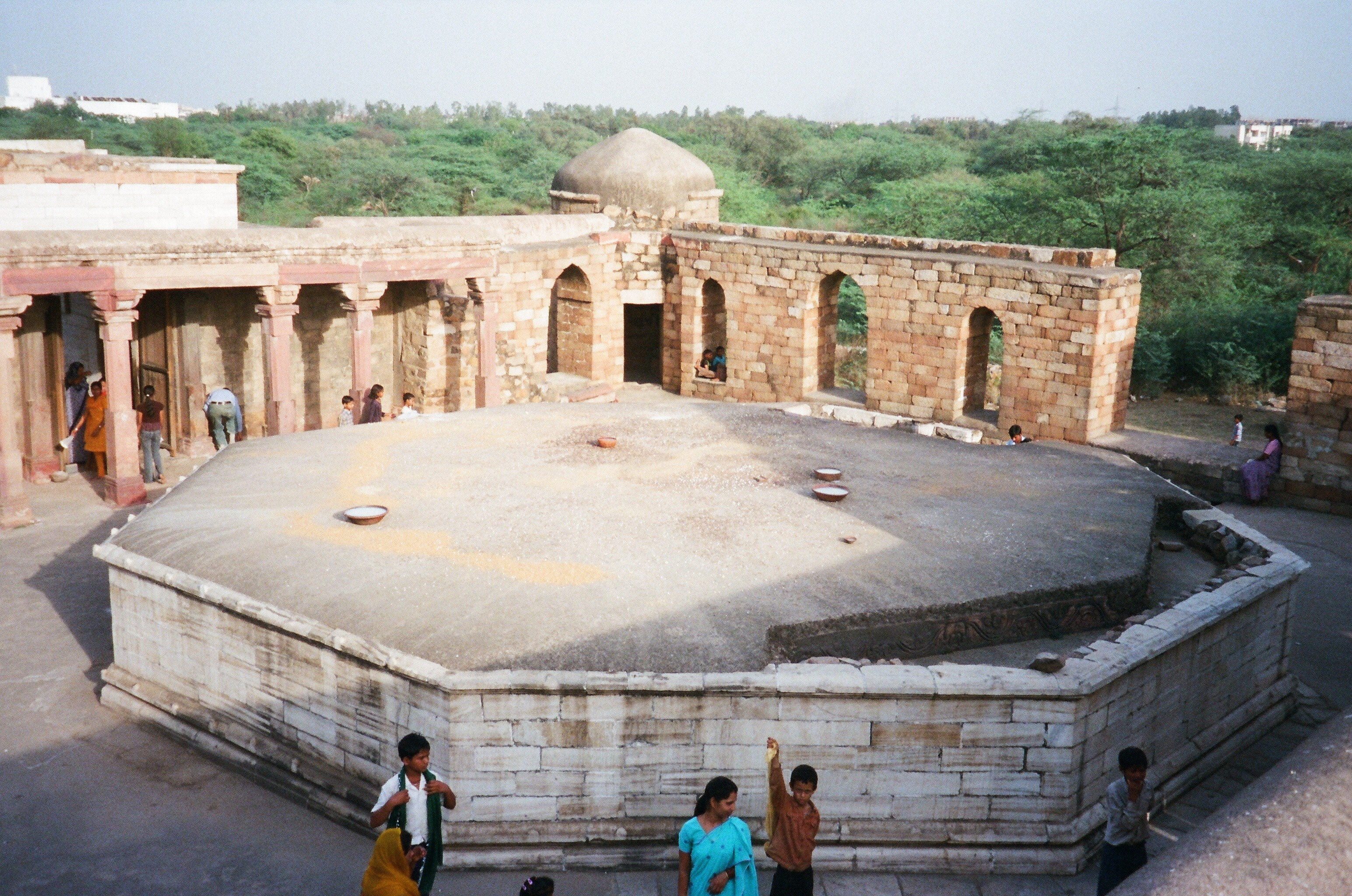 Octogonal tomb with Mihrab on the west side